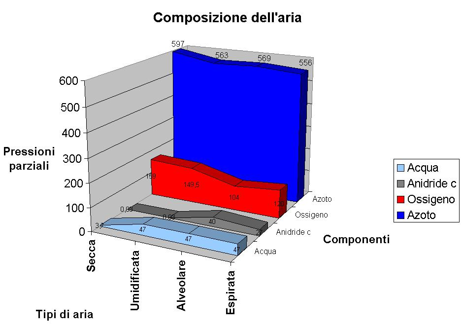 Composition of air inspired, in alveoli and expired